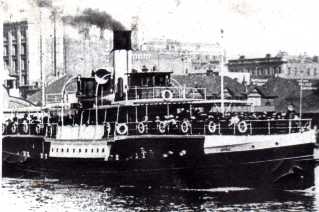 Steamship Manly II an Early Manly Ferry